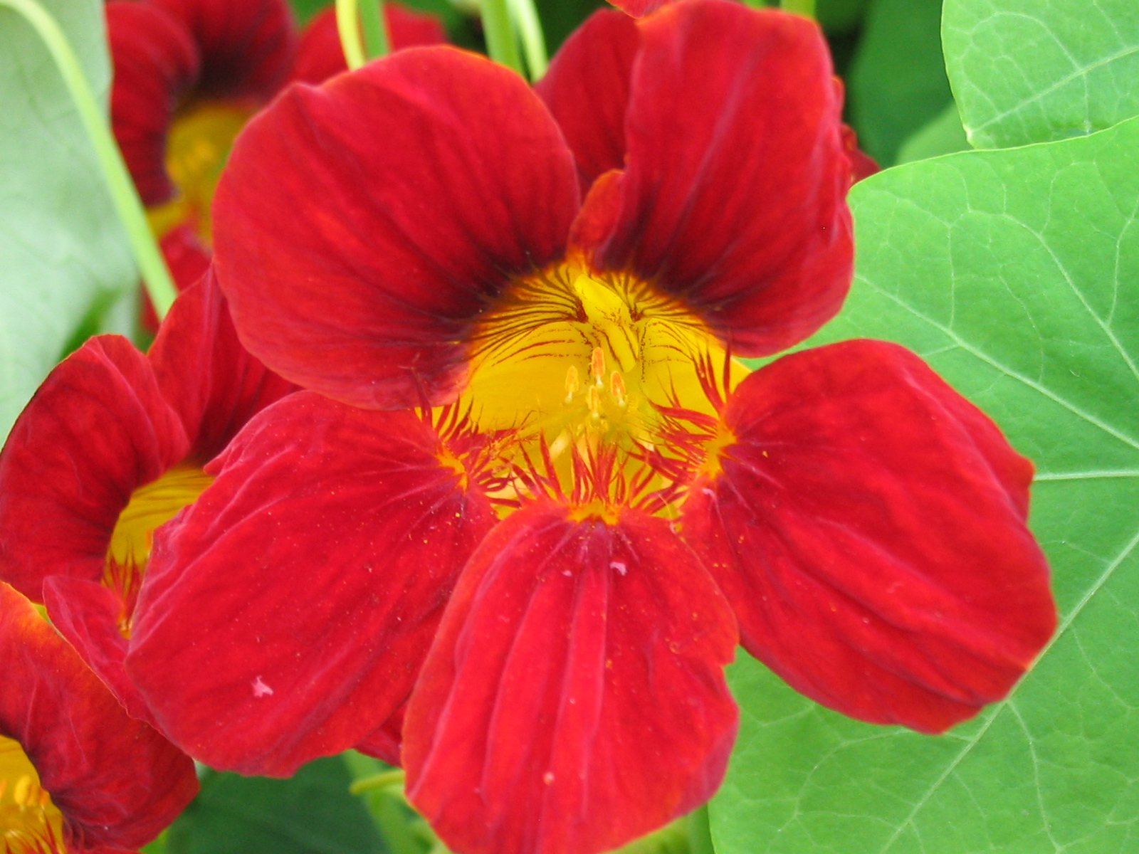 Indian cress flower